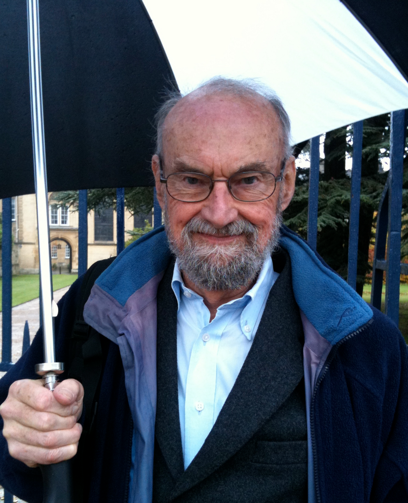 Edwin Mellor Southern in Oxford in November 2012